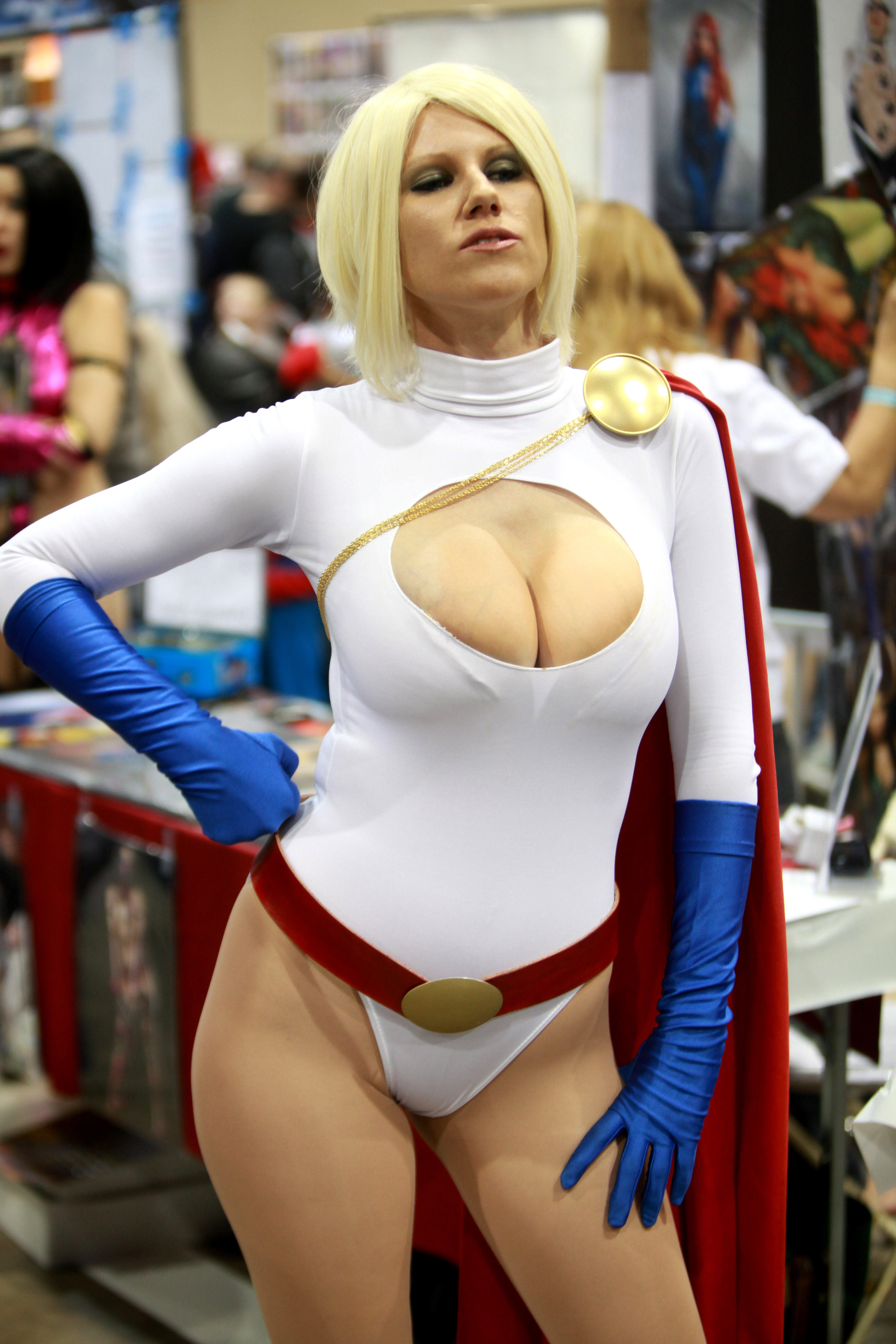 Power Girl cosplayer at the 2014 Amazing Arizona Comic Con at the Phoenix Convention Center in Phoenix, Arizona.